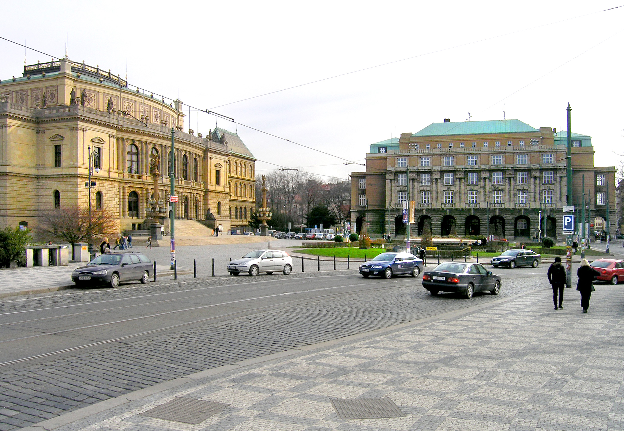 Palach square, Prague